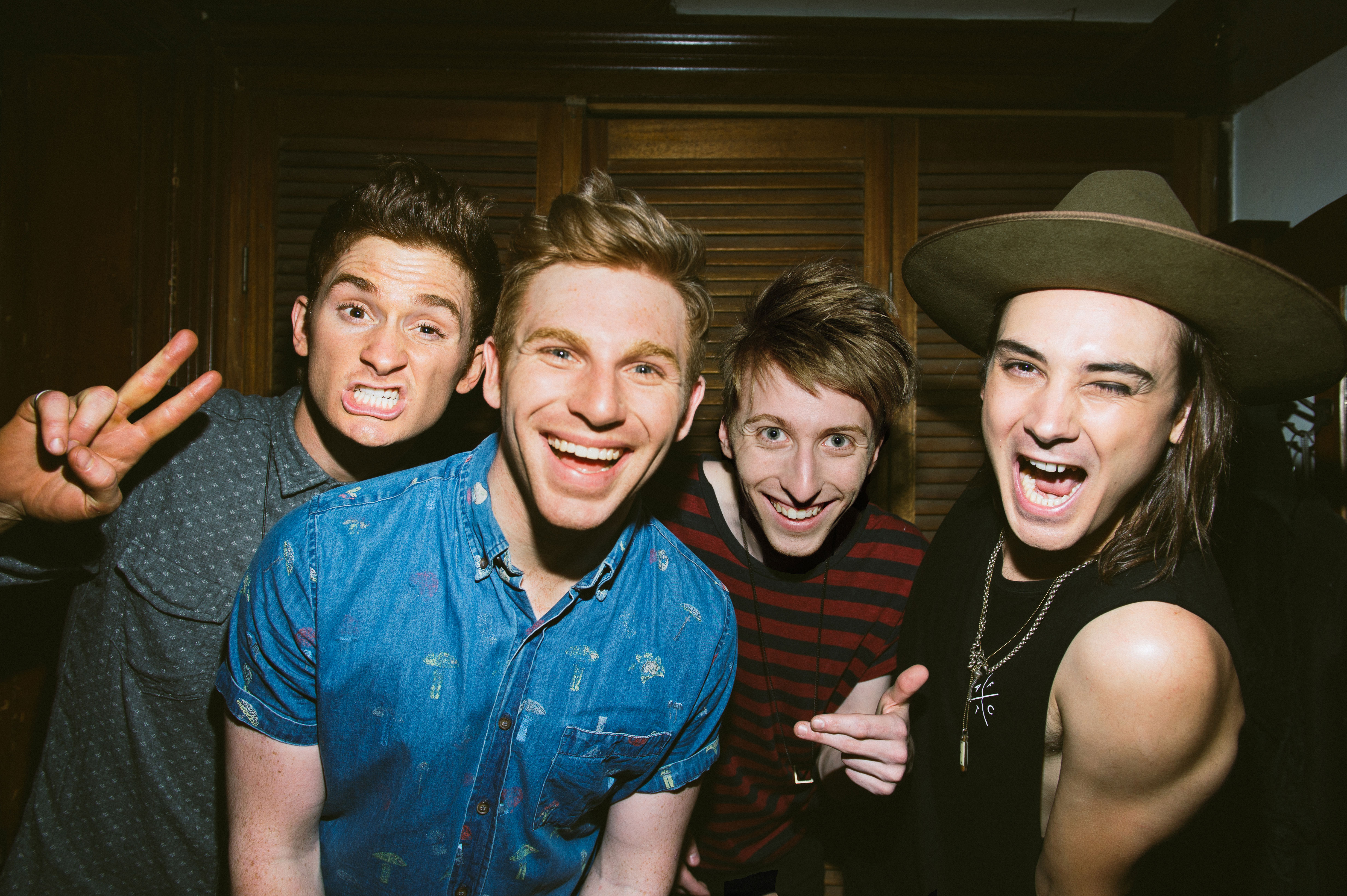 Masketta Fall 'Love Me Like That' Press Shot 2016